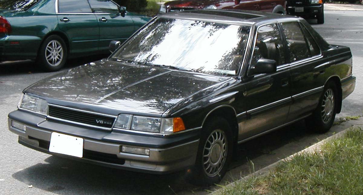 1986-1990 Acura Legend photographed in USA.